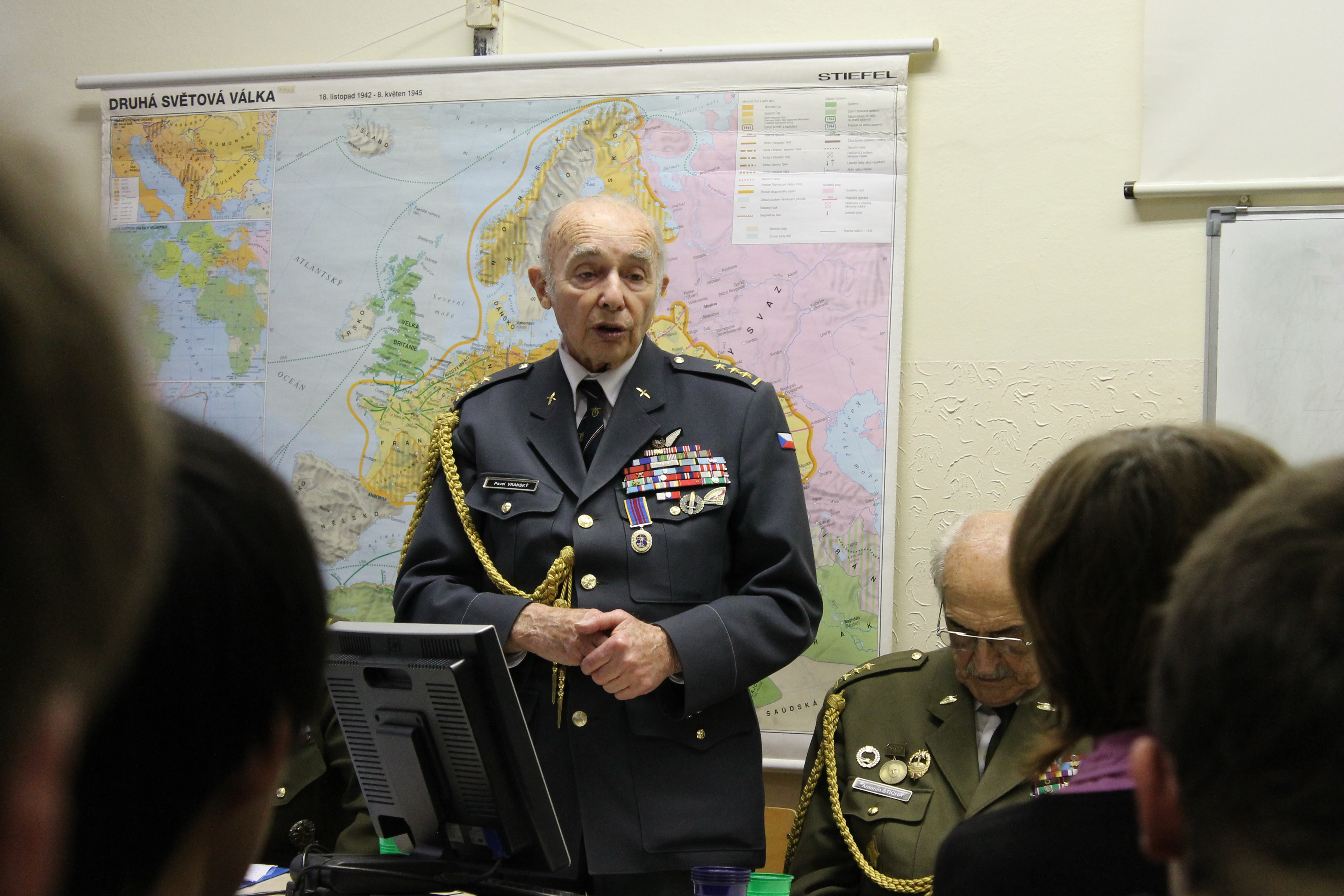 Colonel Pavel Vranský, WWII veteran giving speech to students of „Gymnázium Budějovická“ grammar school